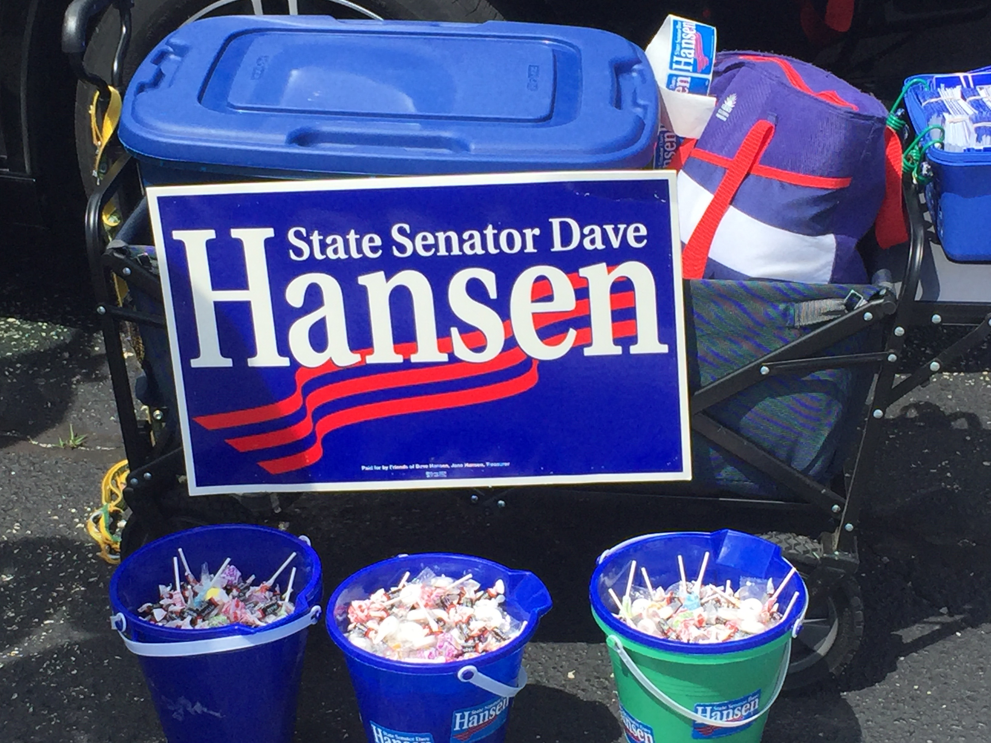 Sen. Dave Hansen - Campaign Placard